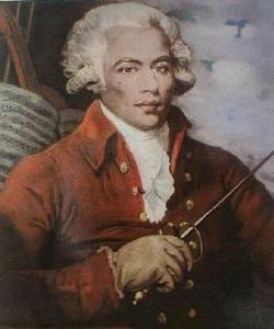 Pastiche de la gravure de William Ward d'après Mather Brown